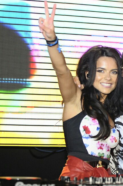 Inna at a concert in 2012